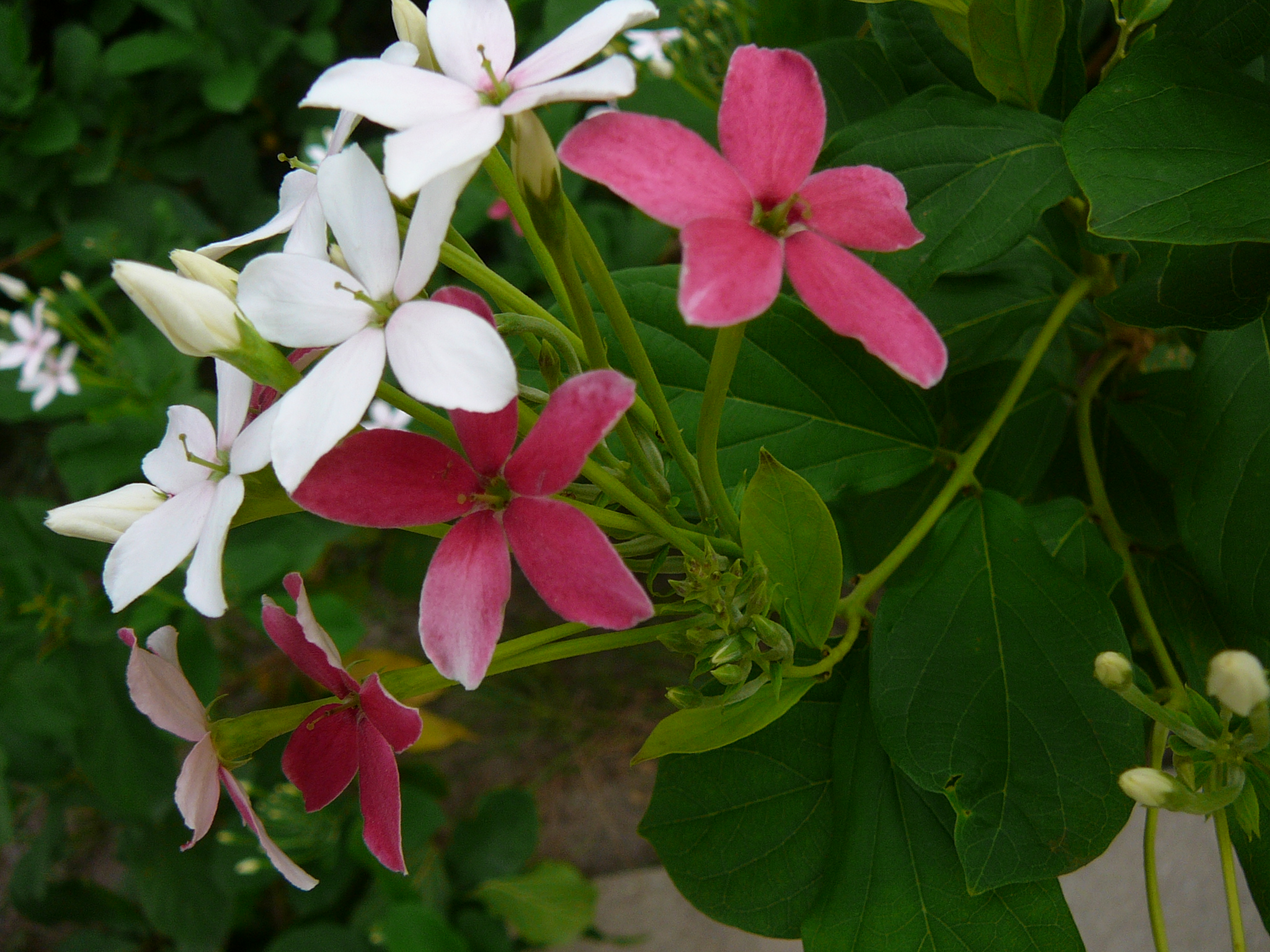 Rangoon creeper